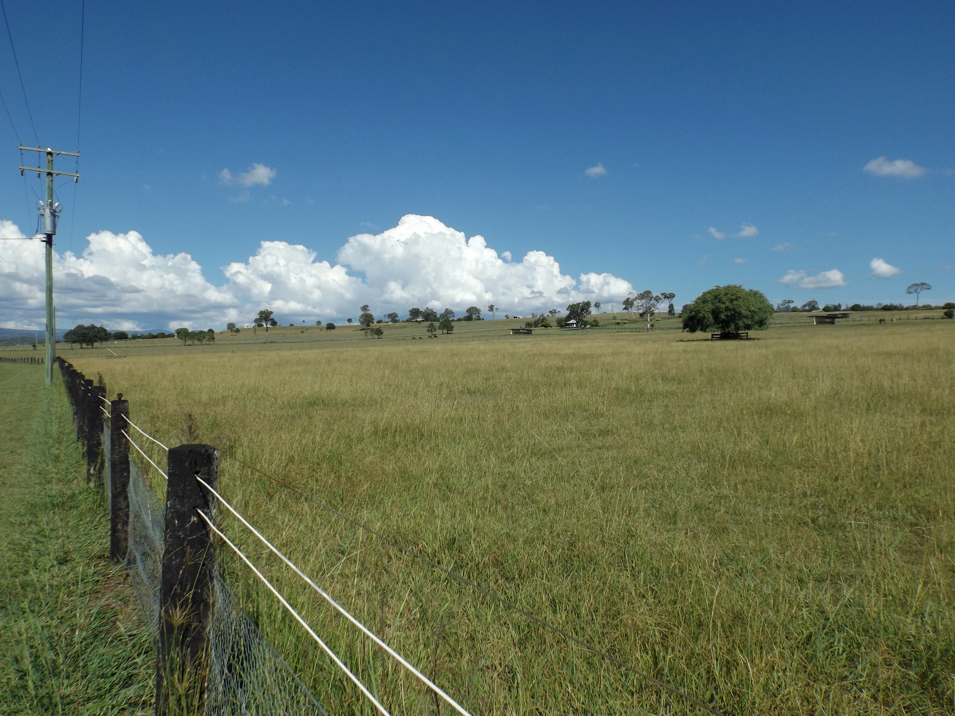 Photo of paddocks along Oaky Scrub Road at Innisplain, Scenic Rim Region, Queensland, Australia.